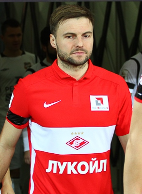 Vladimir Granat